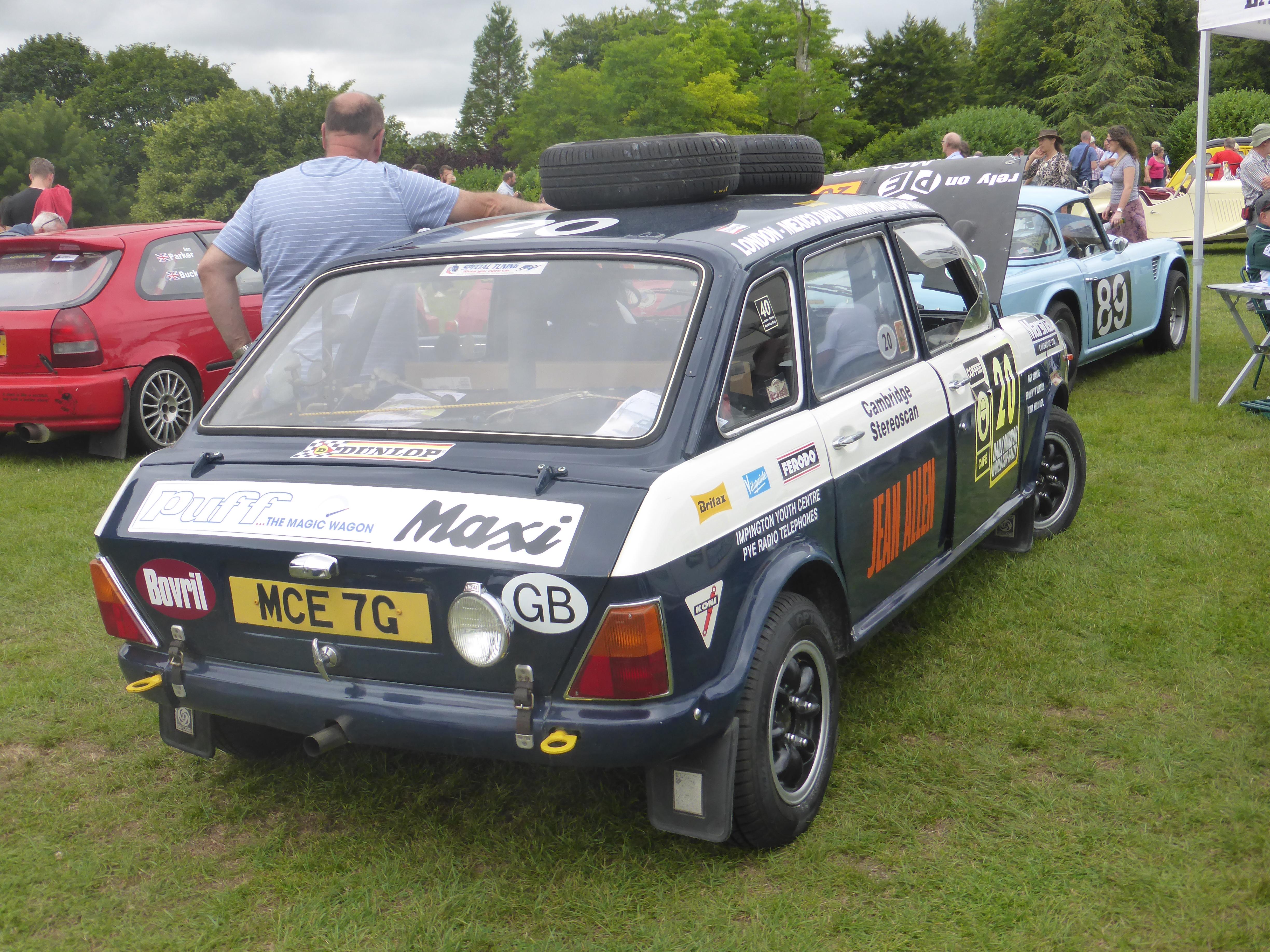 Classics at the Castle, Sherborne